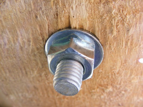 Free and Public Domain Photos – Bolt and Nut Screwed More photos and details about possible copyright or licensing restrictions here: Full Size Up to 3072 x 2304 pixels Information Regarding Copyright